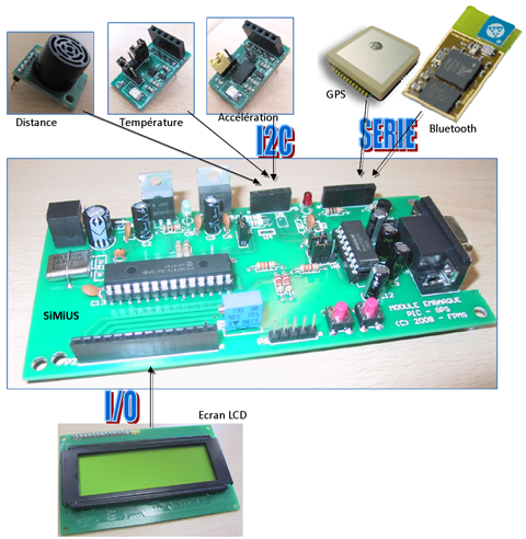 Simius card photography